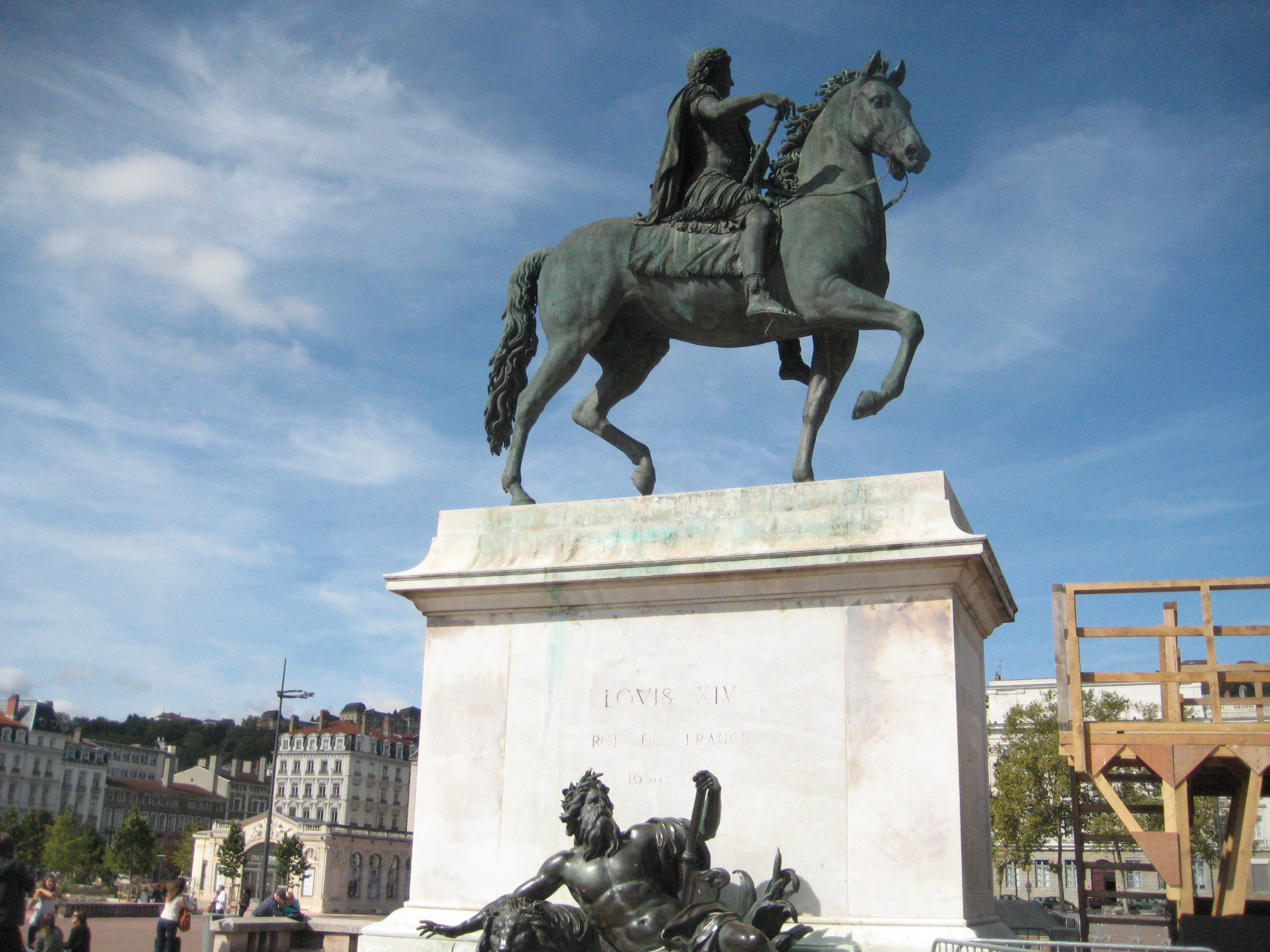 Louis XIV as a Roman Emperor in Lyon